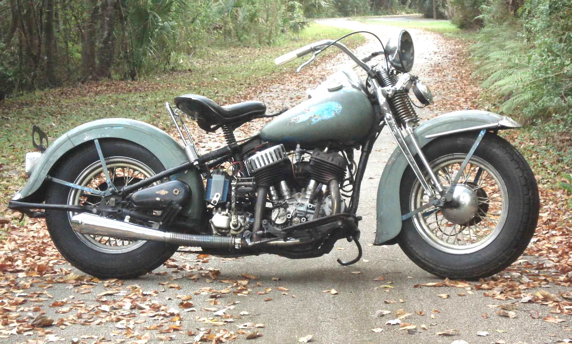 1959 Rikuo VLE